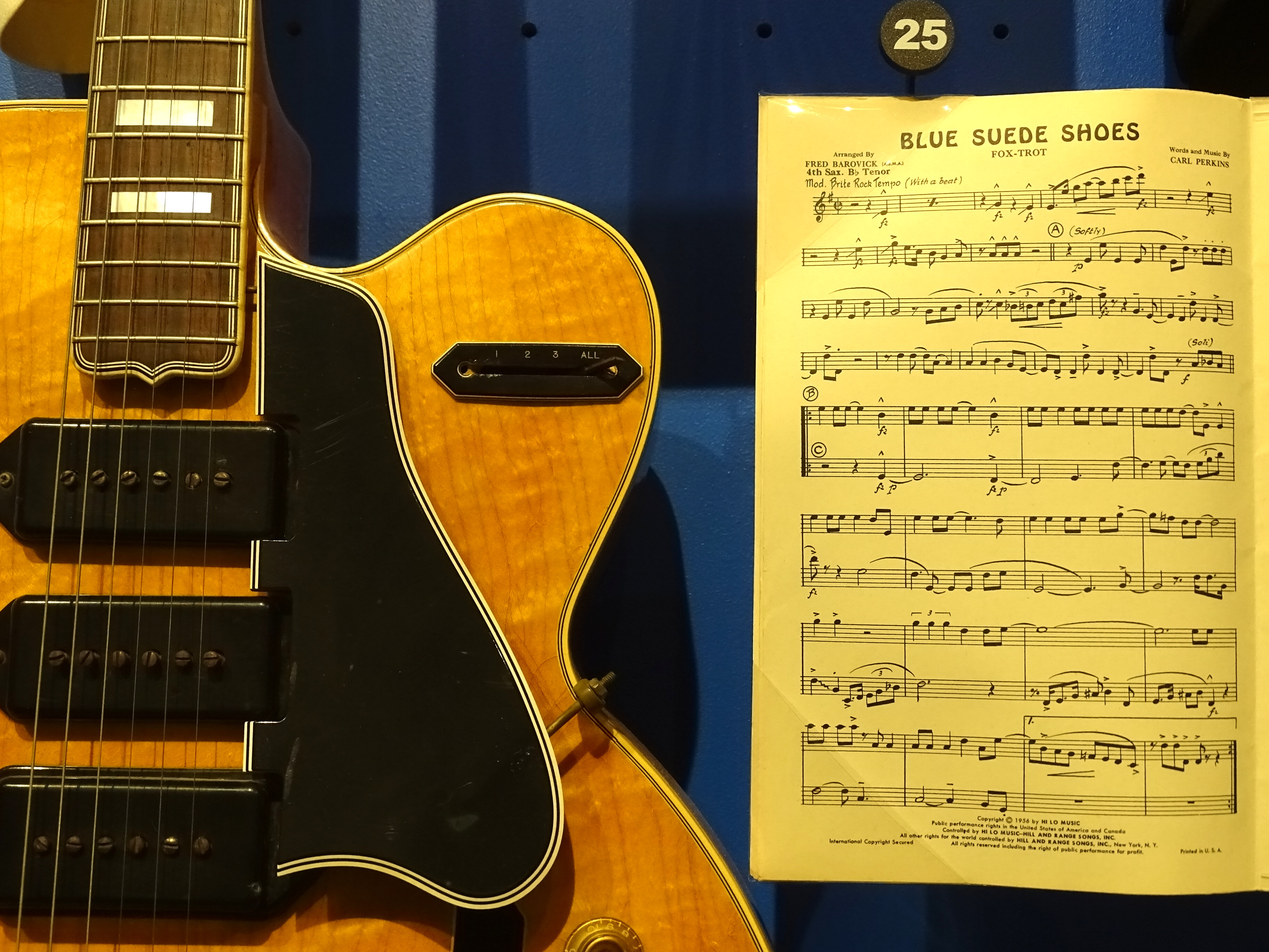 Carl Perkins Guitar with Blue Suede Shoes Sheet Music - Rock & Roll Hall of Fame and Museum - Cleveland - Ohio - USA